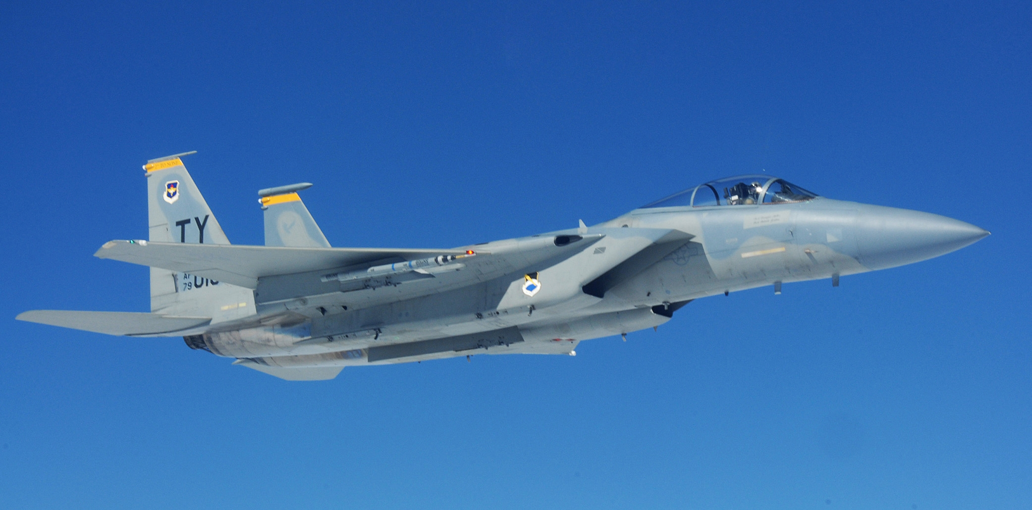 A U.S. Air Force F-15 Eagle aircraft flies over Panama City, Fla.